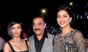 Kamal Haasan with his daughters Shruti Haasan and Akshara Haasan at audio release of 'Shamitabh'